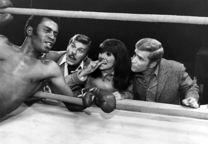 Publicity photo from the television program That Girl. From left: Scoey Mitchell, Billy DeWolfe, Marlo Thomas and Ted Bessell.